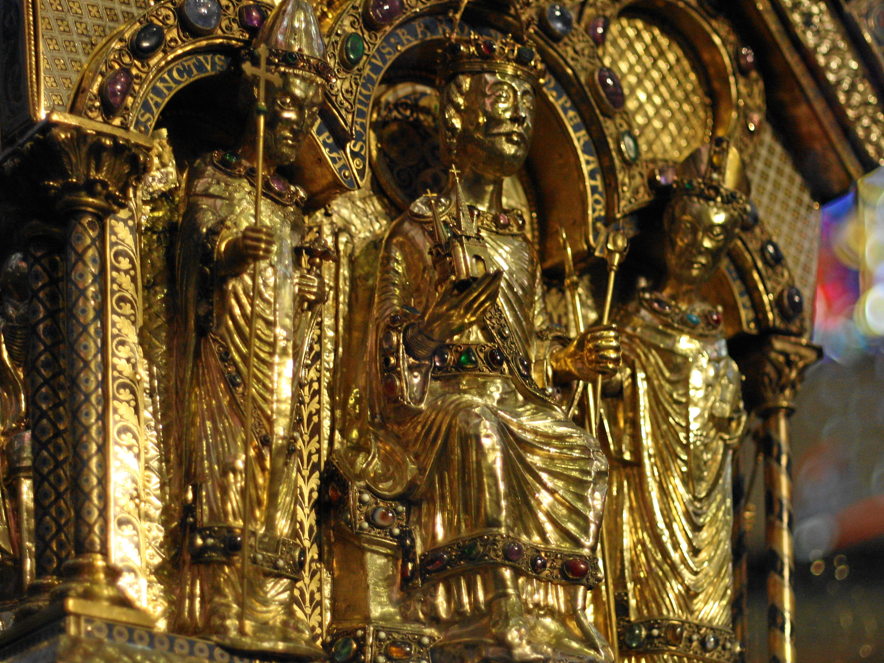 Aachen, Germany. Shrine of Charlemagne in Aachen cathedral.